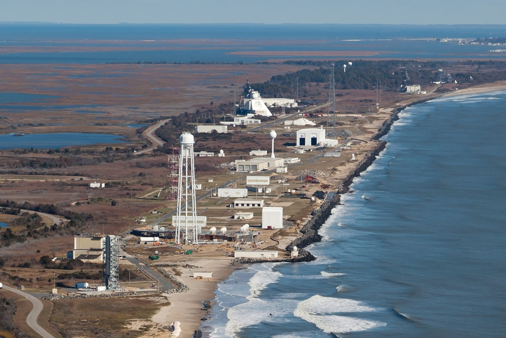 NASA Goddard Space Flight Center's Wallops Flight Facility, located on Virginia's Eastern Shore, was established in 1945 by the National Advisory Committee for Aeronautics, as a center for aeronautic research. Wallops is now NASA's principal facility for management and implementation of suborbital research programs. The Wallops Mission Plan includes the following objectives: • To help achieve NASA's strategic objectives for scientific and educational excellence through cost efficient integration, launch, and operations of suborbital and small orbital payloads. • To enable scientific, educational, and economic advancement by providing the facilities and expertise to enable frequent flight opportunities for a diverse customer base. • To serve as a key facility for operational test, integration, and certification of NASA and commercial next-generation, low-cost orbital launch technologies. • To pioneer productive and innovative government, industry, and academic partnerships. The research and responsibilities of Wallops Flight Facility are centered around the philosophy of providing a fast, low cost, highly flexible and safe response to meet the needs of the United States' aerospace technology interests and science research. The 1,000 full-time Civil Service and contractor NASA Wallops employees act as a team to accomplish our mission in the spirit of this philosophy. NASA also opens its unique facilities to industry for space and aeronautics research. Wallops expects an increase in commercial launch activity in the very near future.